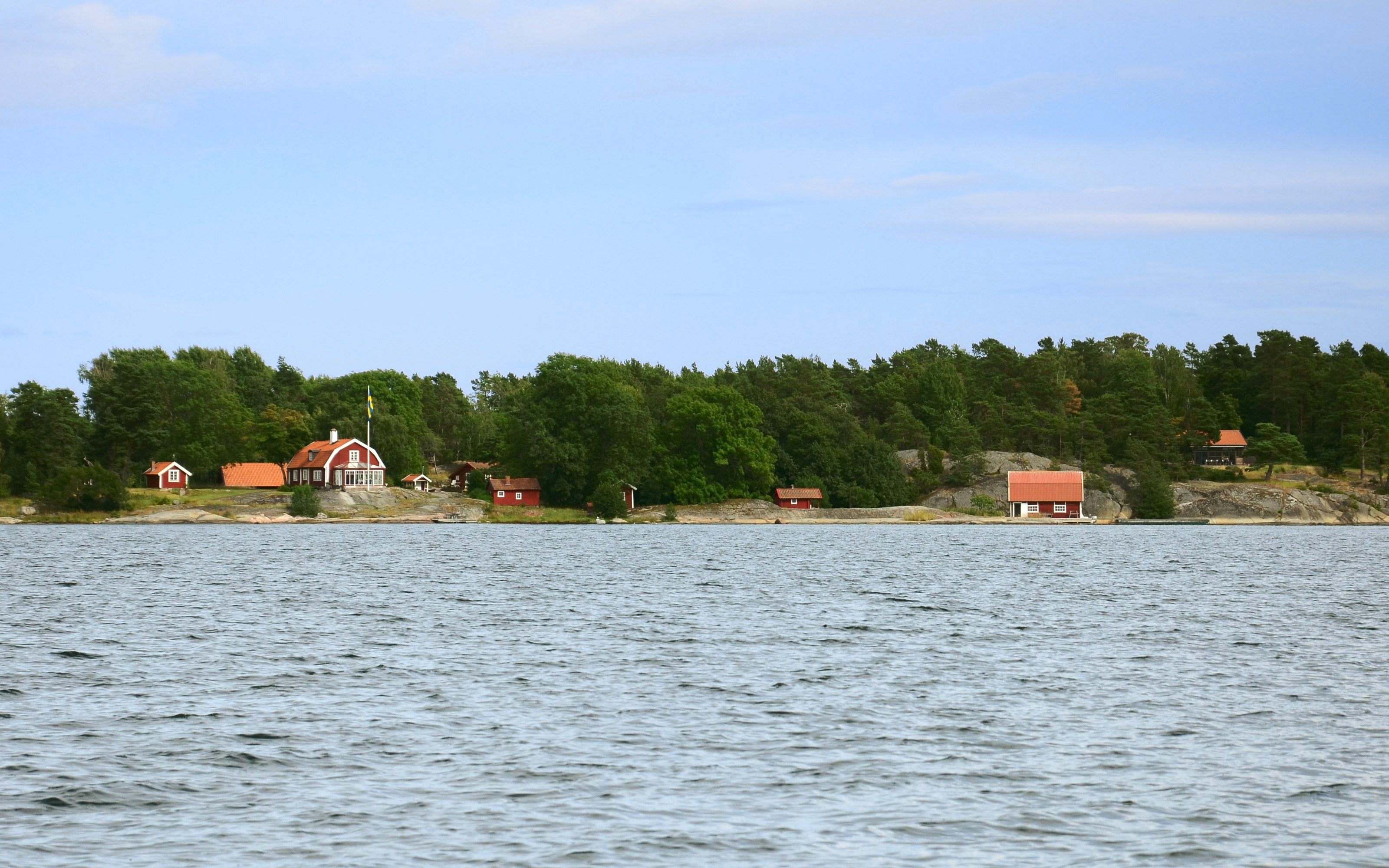 Hälsingholmarna by Finnhamn, Stockholm archipelago.